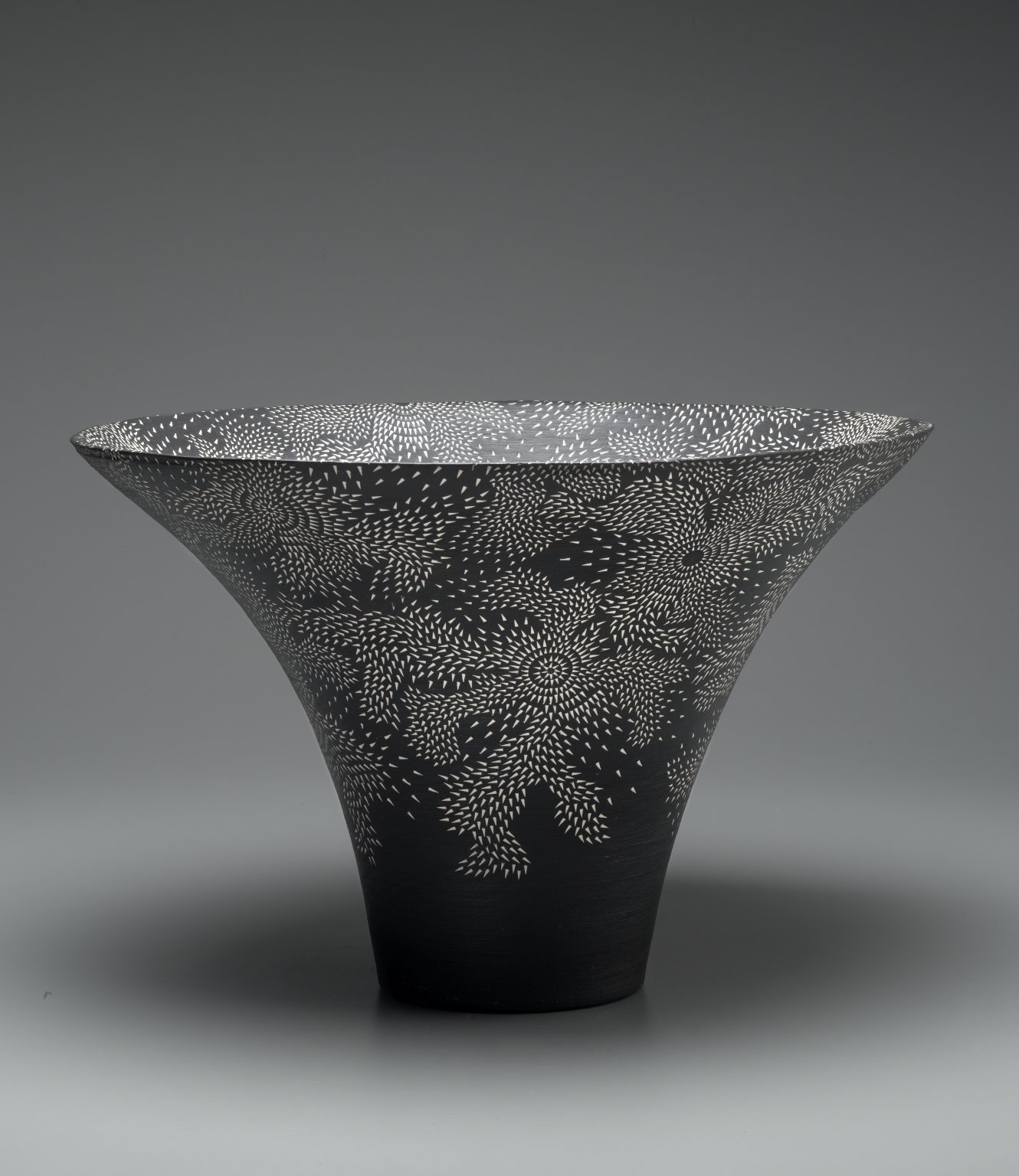 Kitamura Junko (Japanese, born 1956). Vase, 20th century. Stoneware, slip, glaze, 11 1/4 x 16 15/16 in. (28.5 x 43 cm). Brooklyn Museum, Gift of Eleanor Z. Wallace, 1995.189. Creative Commons